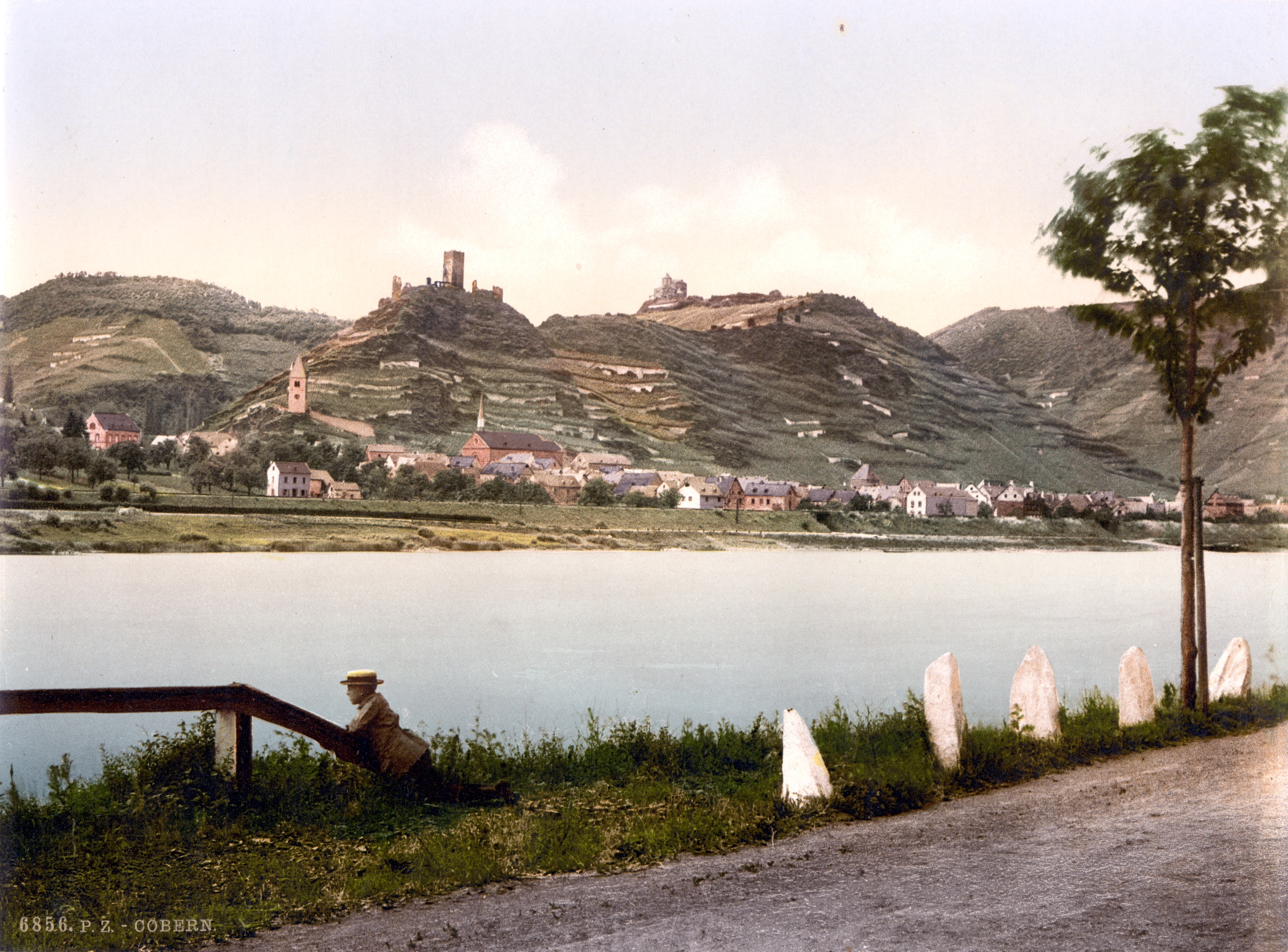 Kobern-Gondorf with Niederburg and Oberburg